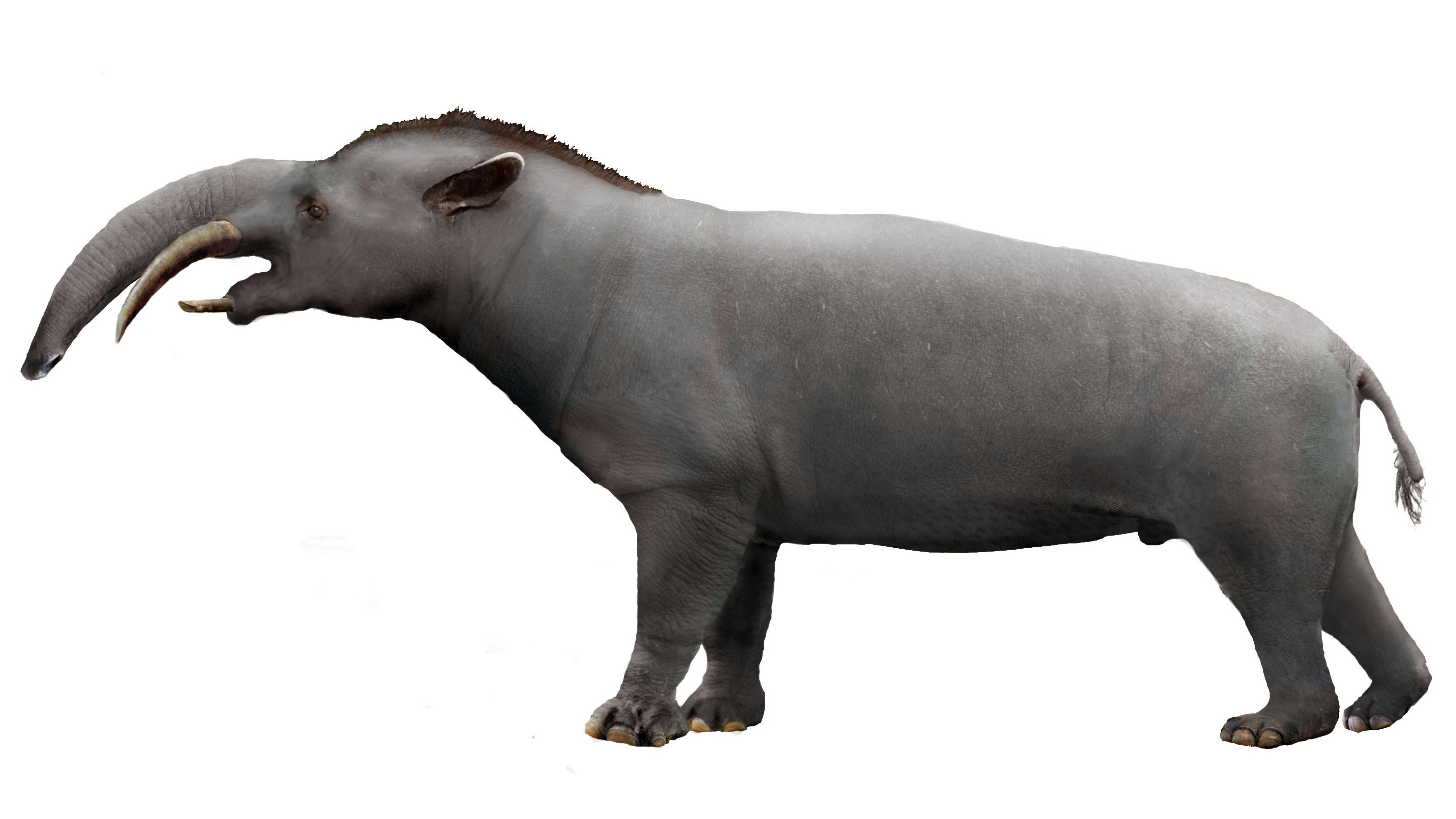 Life reconstruction of the astrapotheriid Granastrapotherium snorki, from the Middle Miocene of South America.